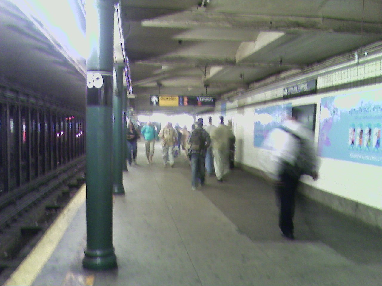 The 59th Street-Columbus Circle station.